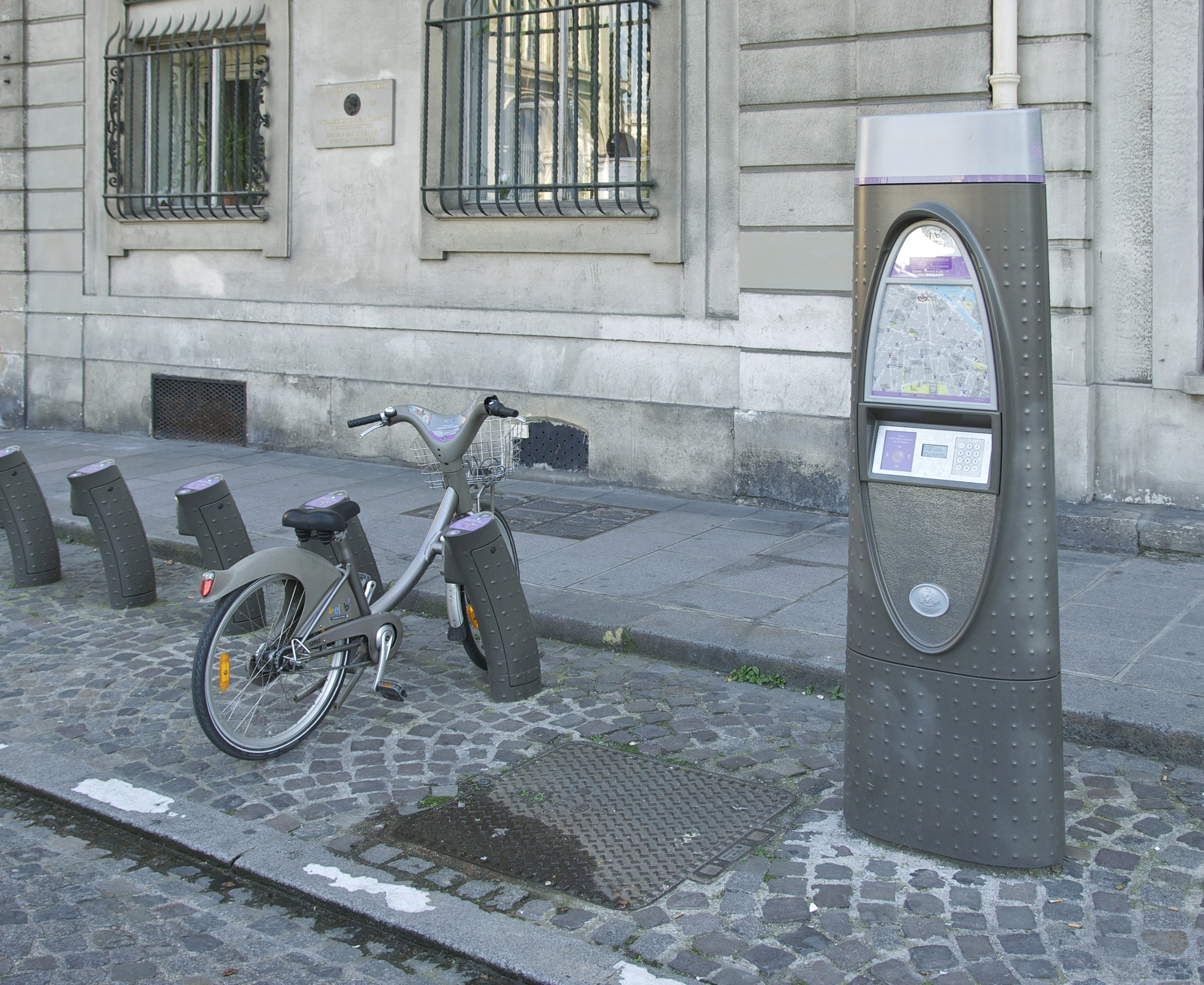 Vélib in Paris.